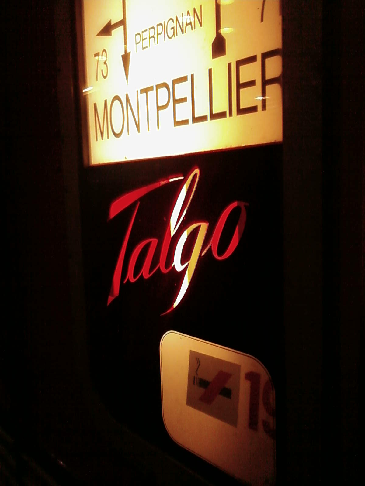 Talgo sign